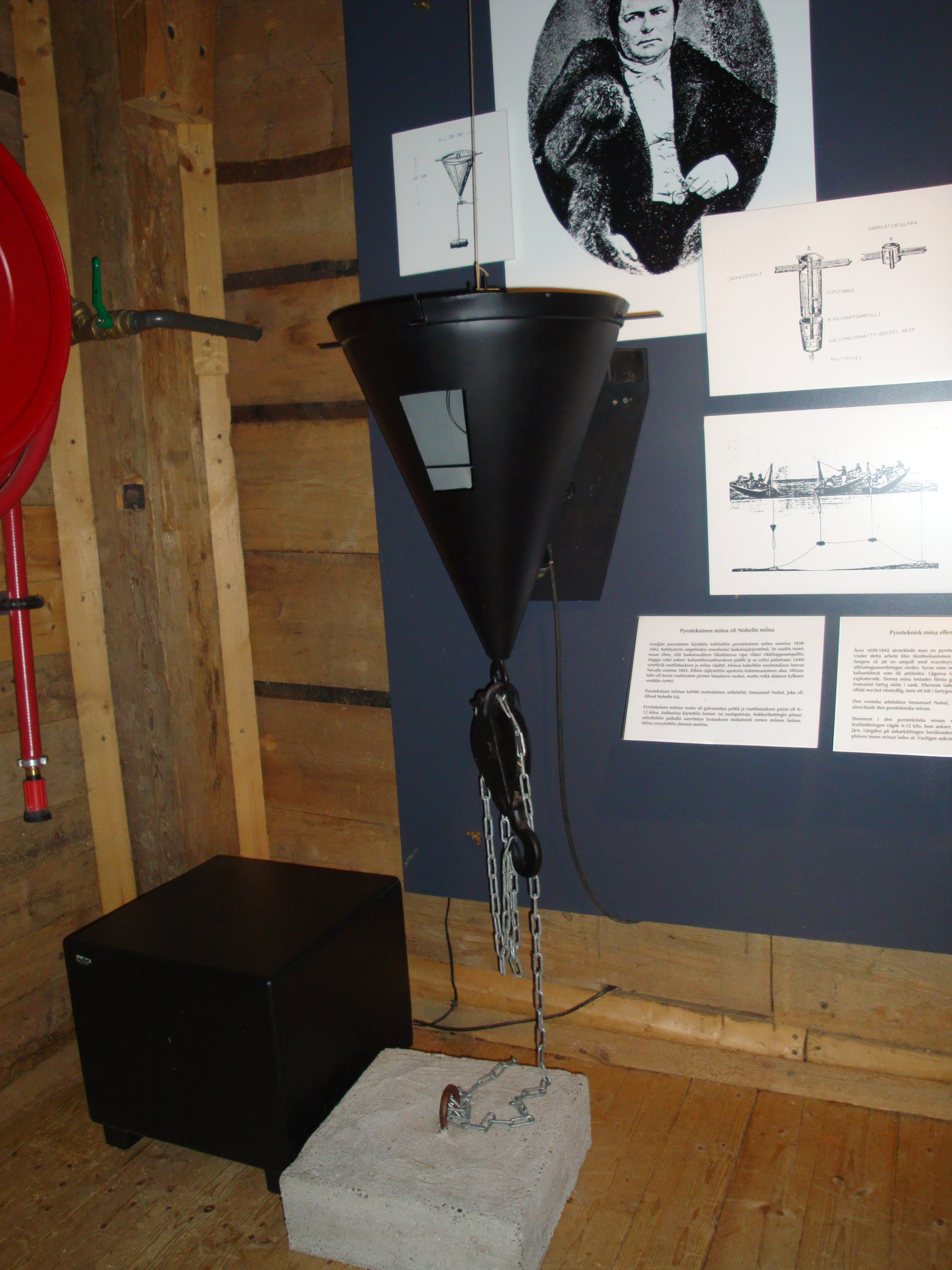 Russian naval mine abt. 1840 on exhibition in Forum Marinum, Turku, Finland